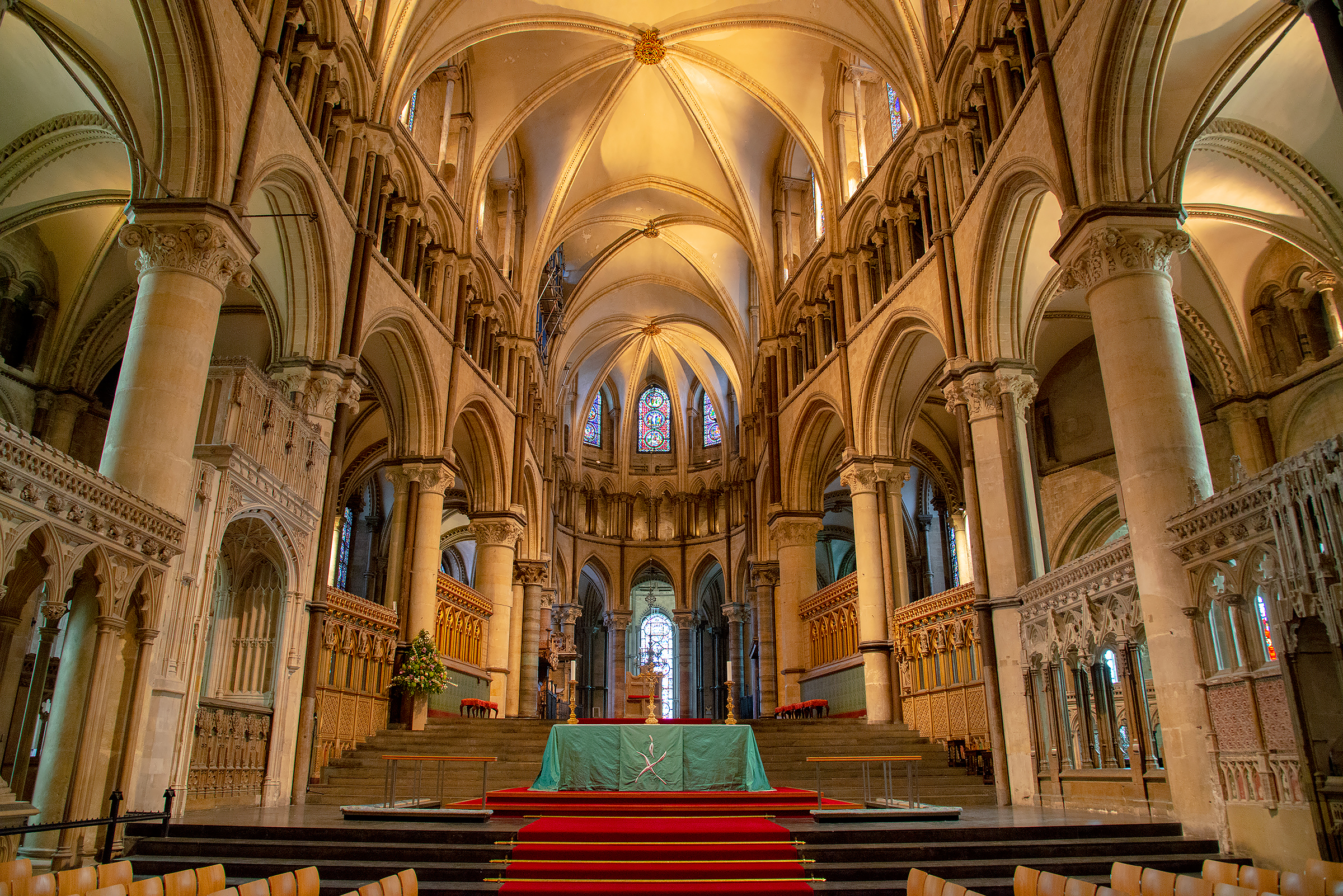 Altar, Canterbury Cathedral